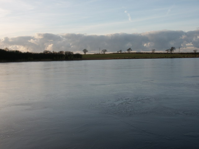 Belston Loch Belston loch taken from near the middle when the loch was frozen with about 125mm ice.